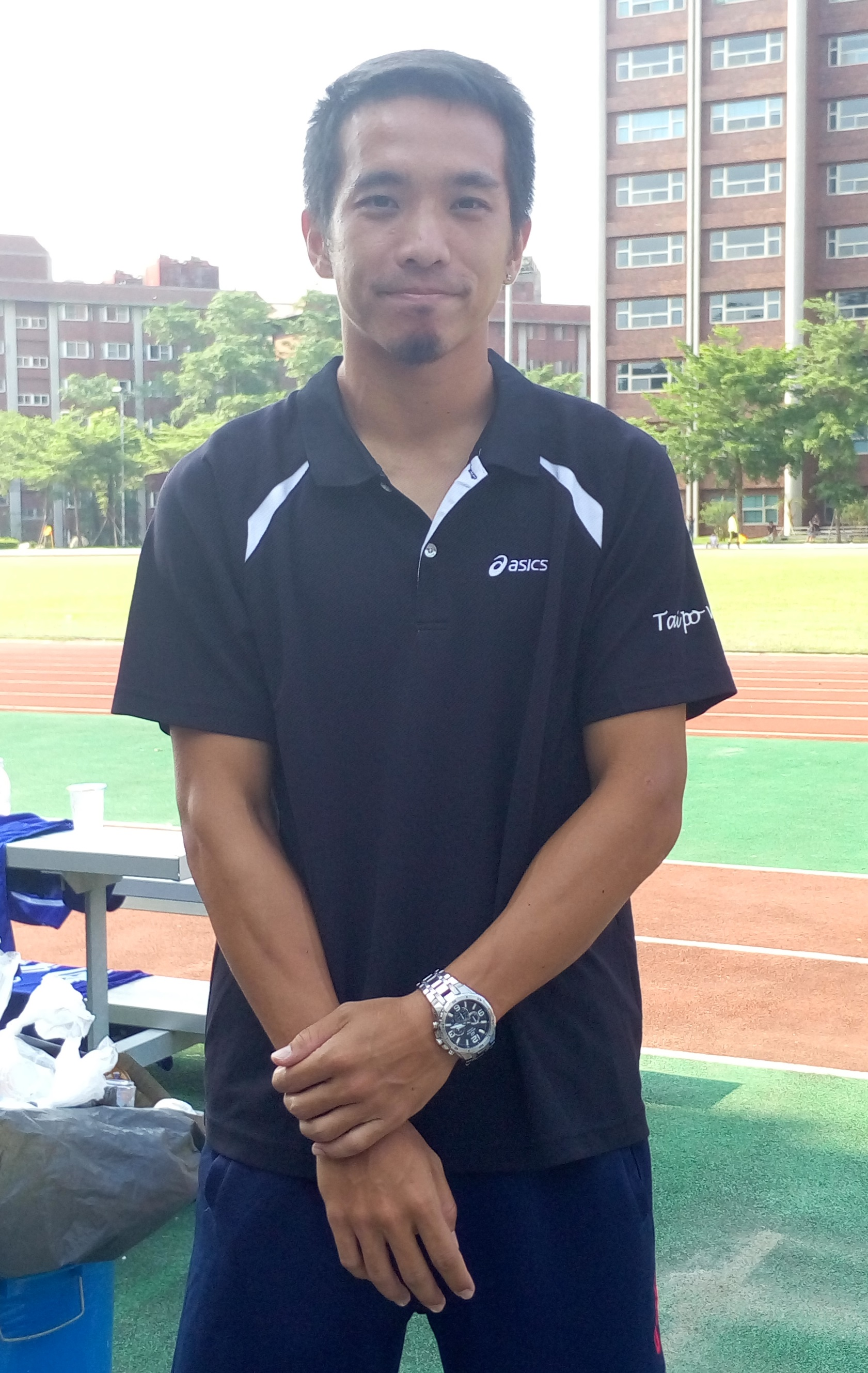 Lu Kun-Chi in Taipower